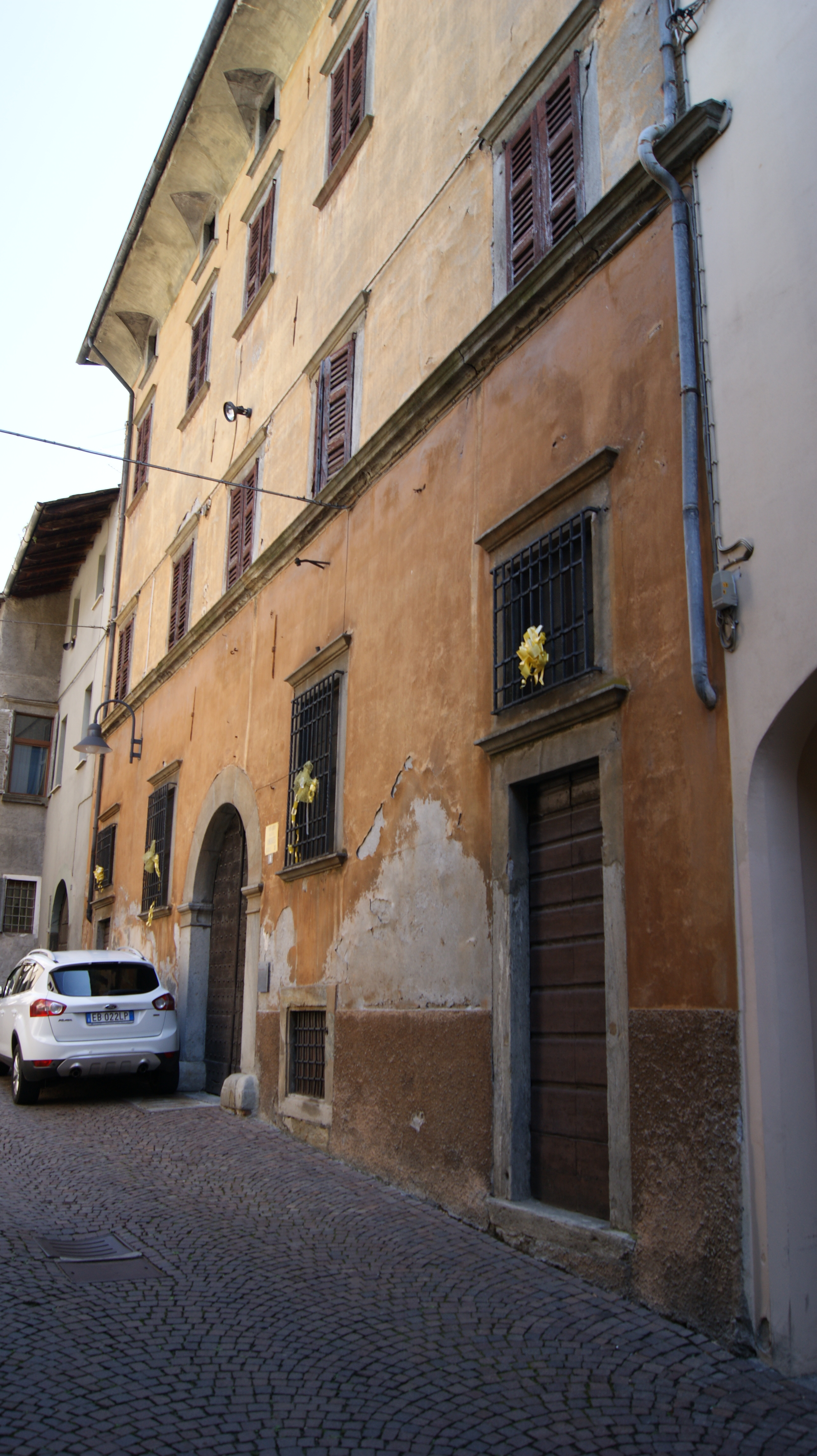 Old town of Tirano (Sondrio), Italy. Palazzo Andres.